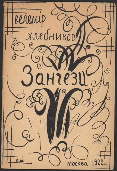 Zangezi, "supernovel" by Velimir Khlebnikov